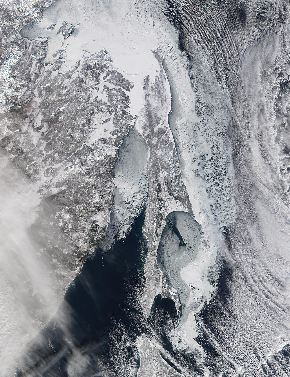 Sakhalin Island in January